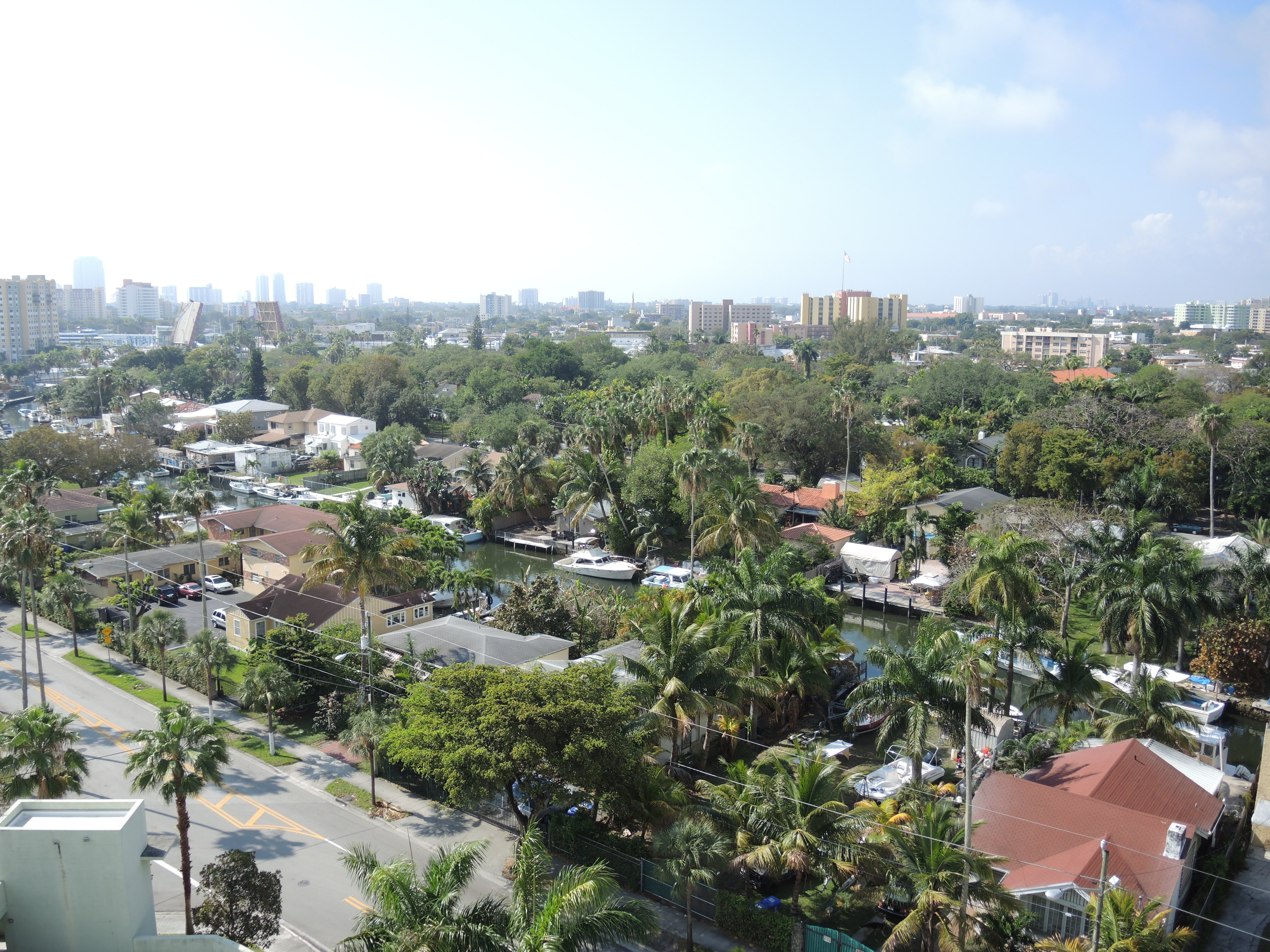 Spring Garden as seen from NW 11th Street.